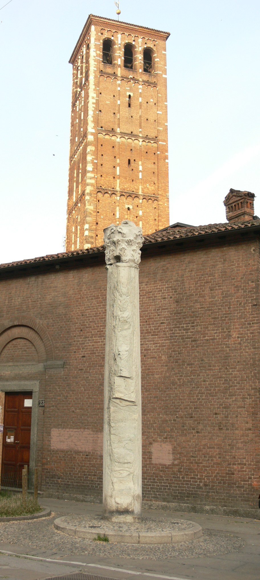 The so-called "Pillar of the Devil" beside Sant'Ambrogio basilica in Milan. Superstion has that the twin holes at the base of this 3rd century Roman pillar were personally punched with his horns by the Devil.